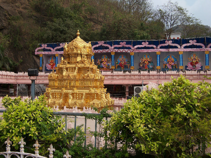 Sri Durga Malleswari Devasthanam, Vijayawada.